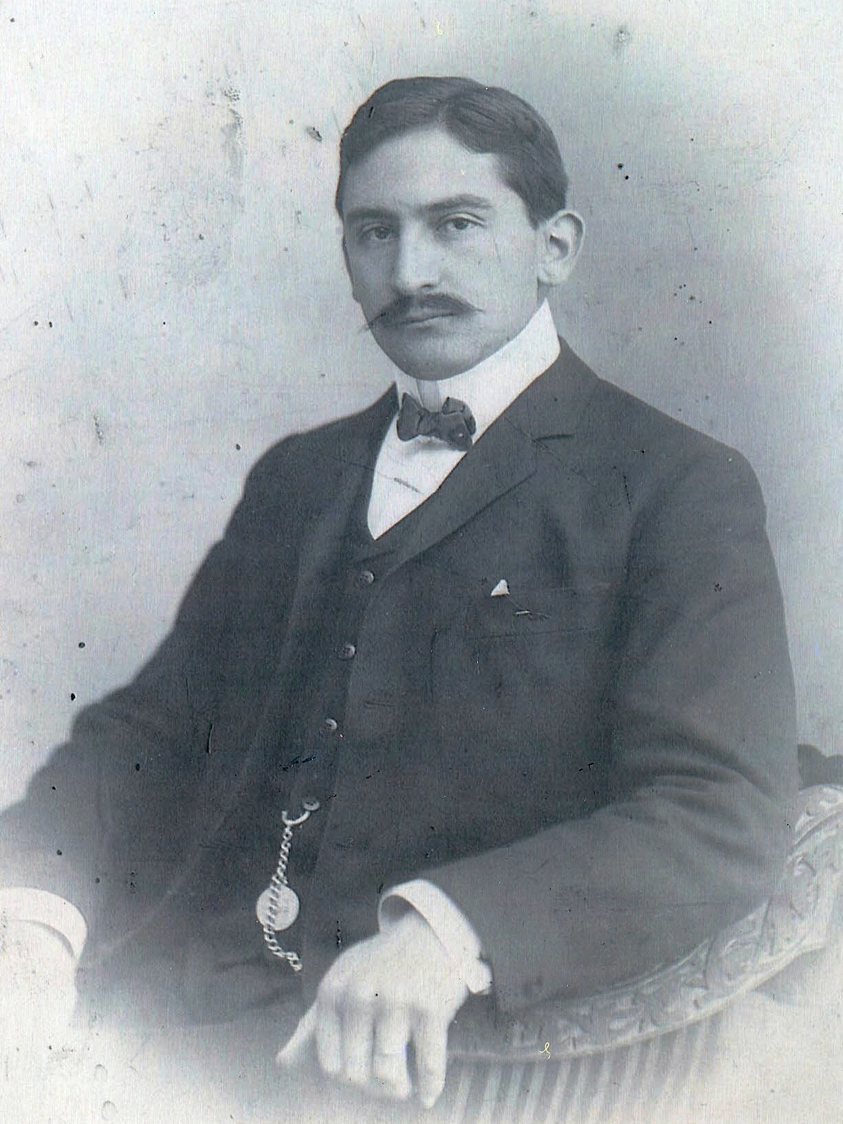 Portrait of Dr. Hermann Seiler (1876-1961)